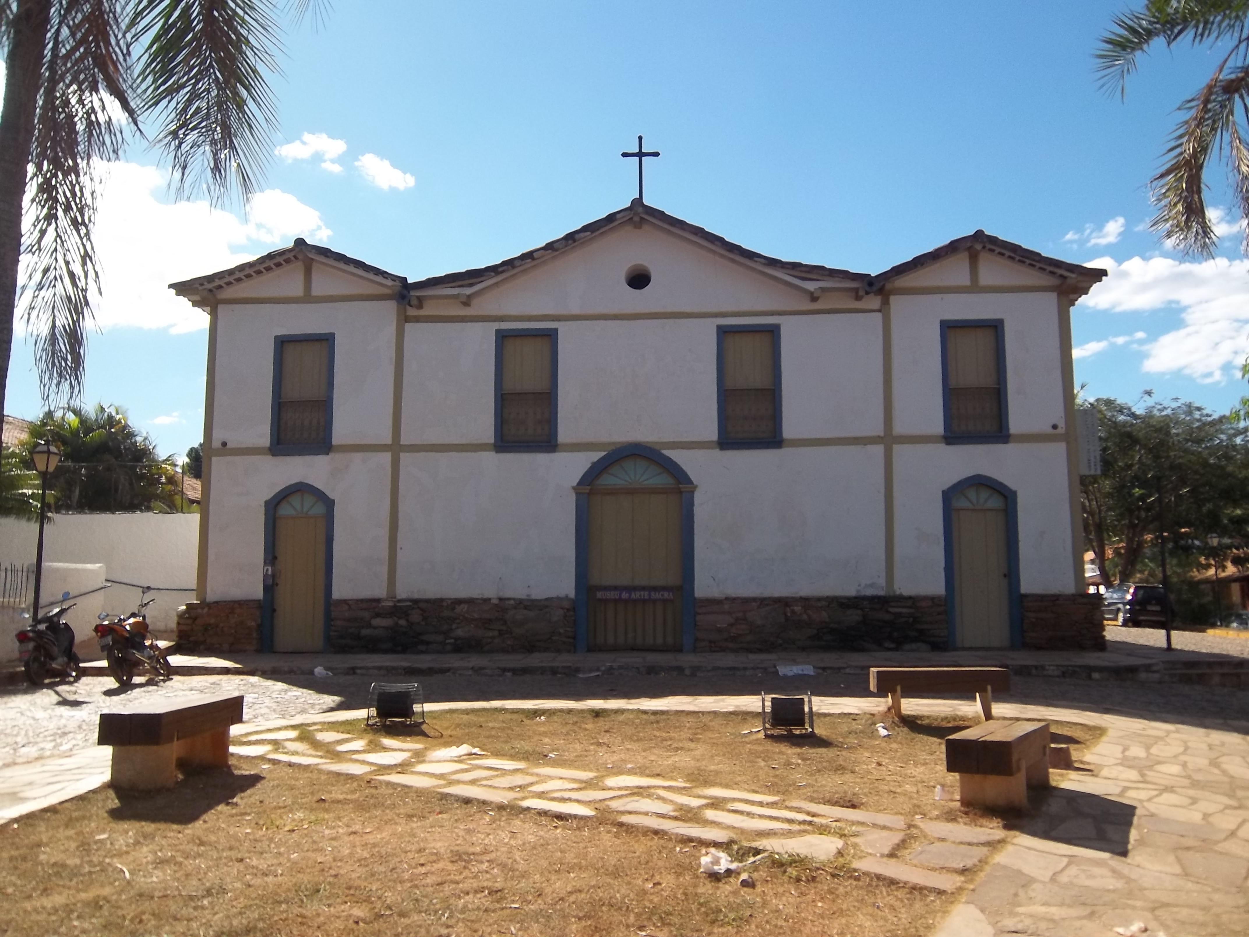 Carmo church in Pirenópolis, Brazil.